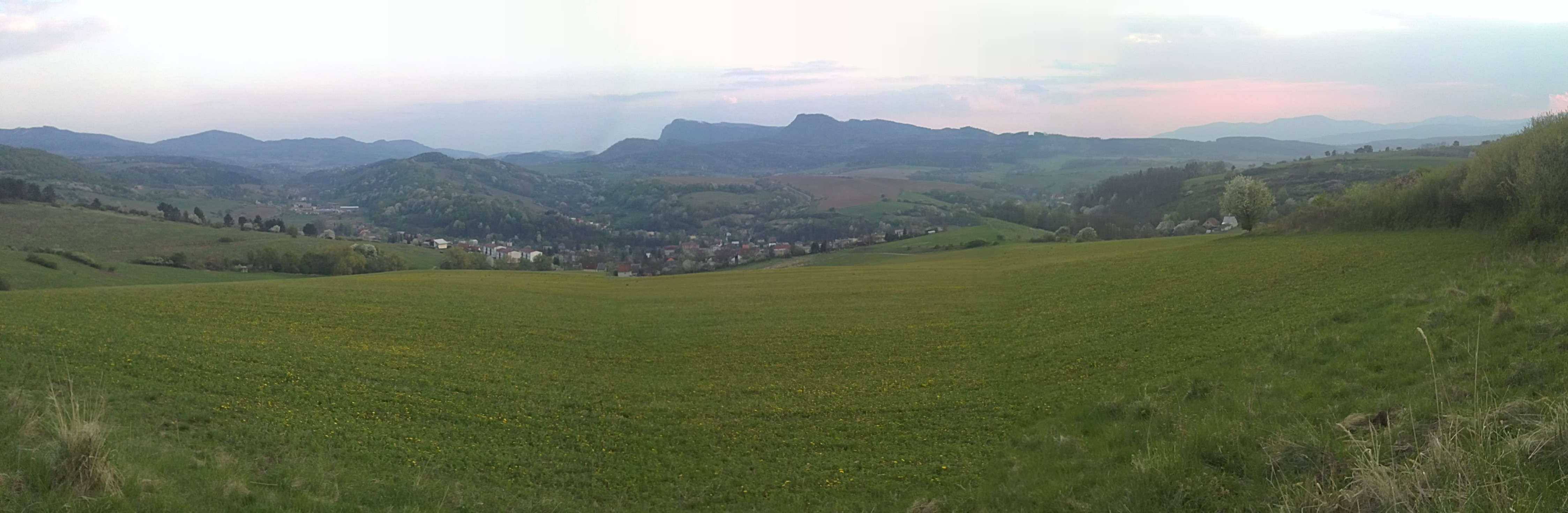 Raztocno SK panorama